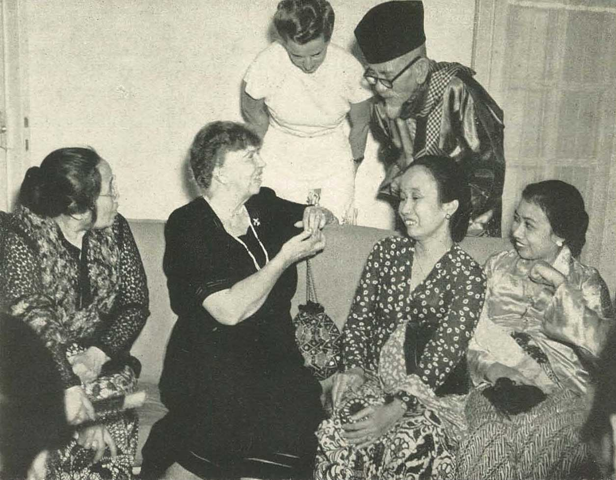 Reception for Eleanor Roosevelt. Speaking to her is Agus Salim